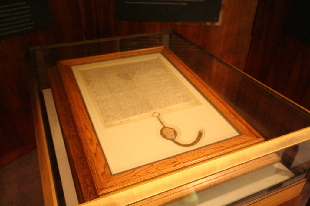 A 1297 copy of the Magna Carta on display in the Members' Hall of Parliament House, Canberra, Australia. It was purchased by the Government of Australia for £12,500 from the King's School, Bruton, in Somerset, England, UK.